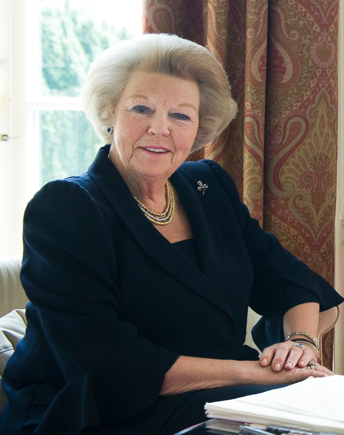 Beatrix at the last official meeting with a prime minister in her reign